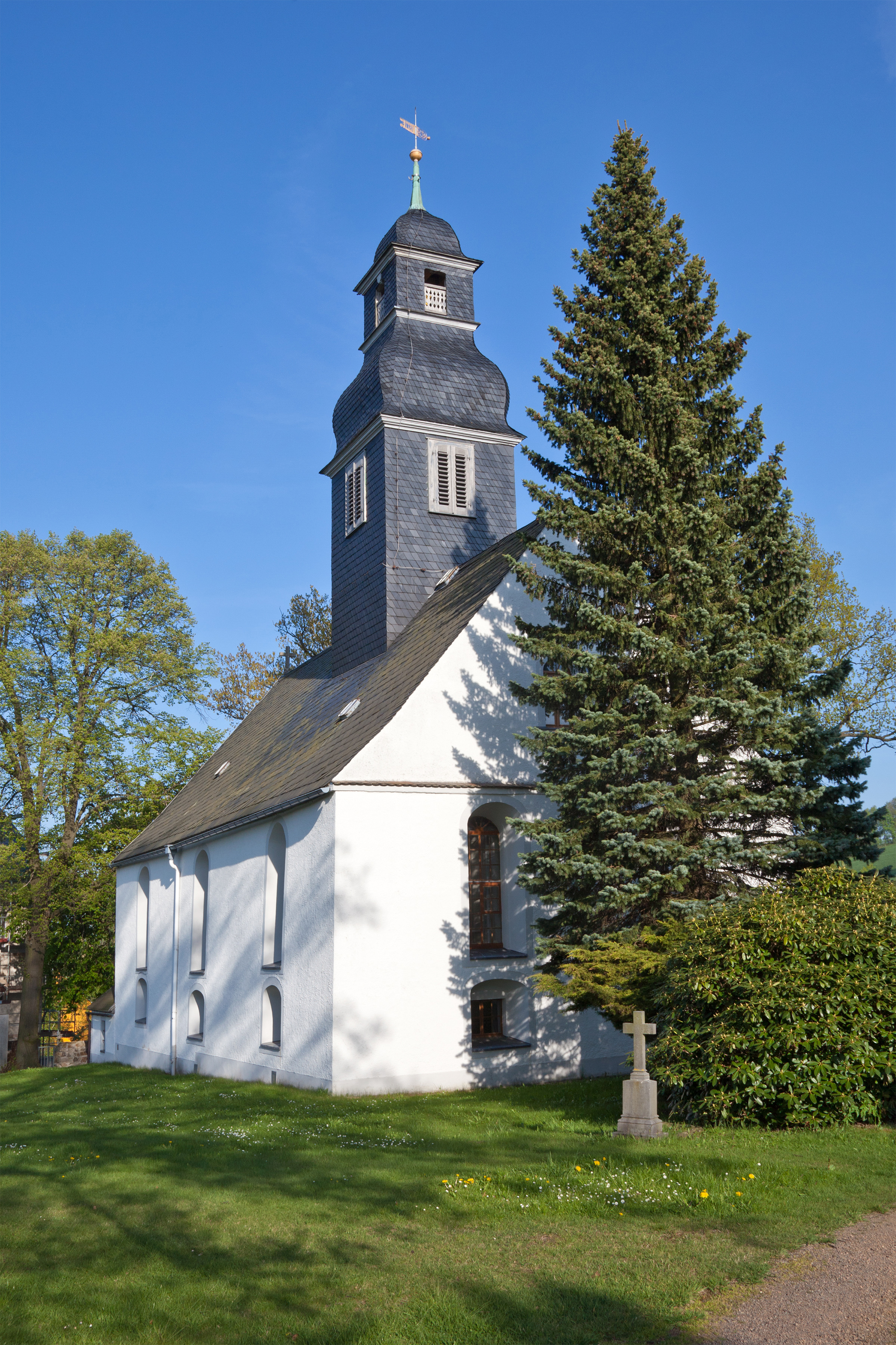 Weigmannsdorf (Lichtenberg, Landkreis Mittelsachsen), church